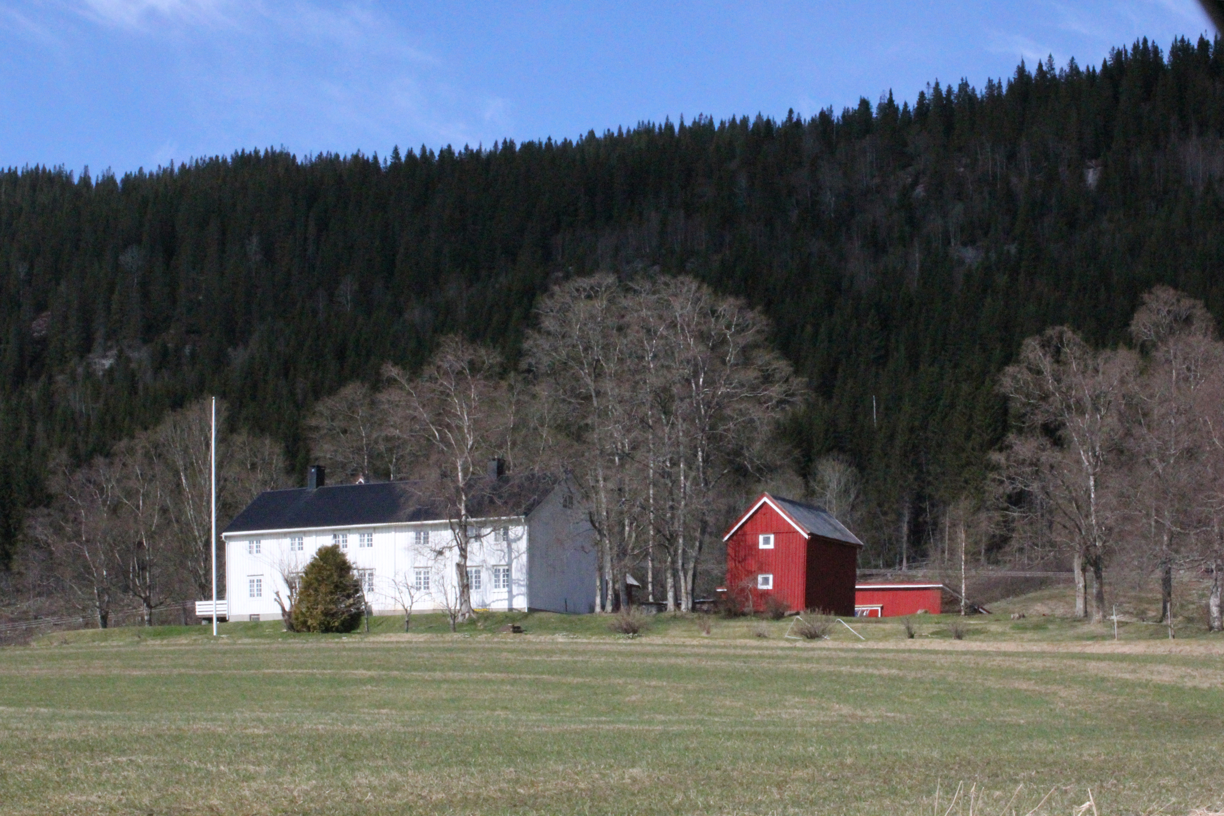 the farm Opdal vestre (Western Opdal), gnr. 53, bnr. 1, Beitstad, Norway. The main building is a timber building from 1837, according to "Norges bebyggelse".